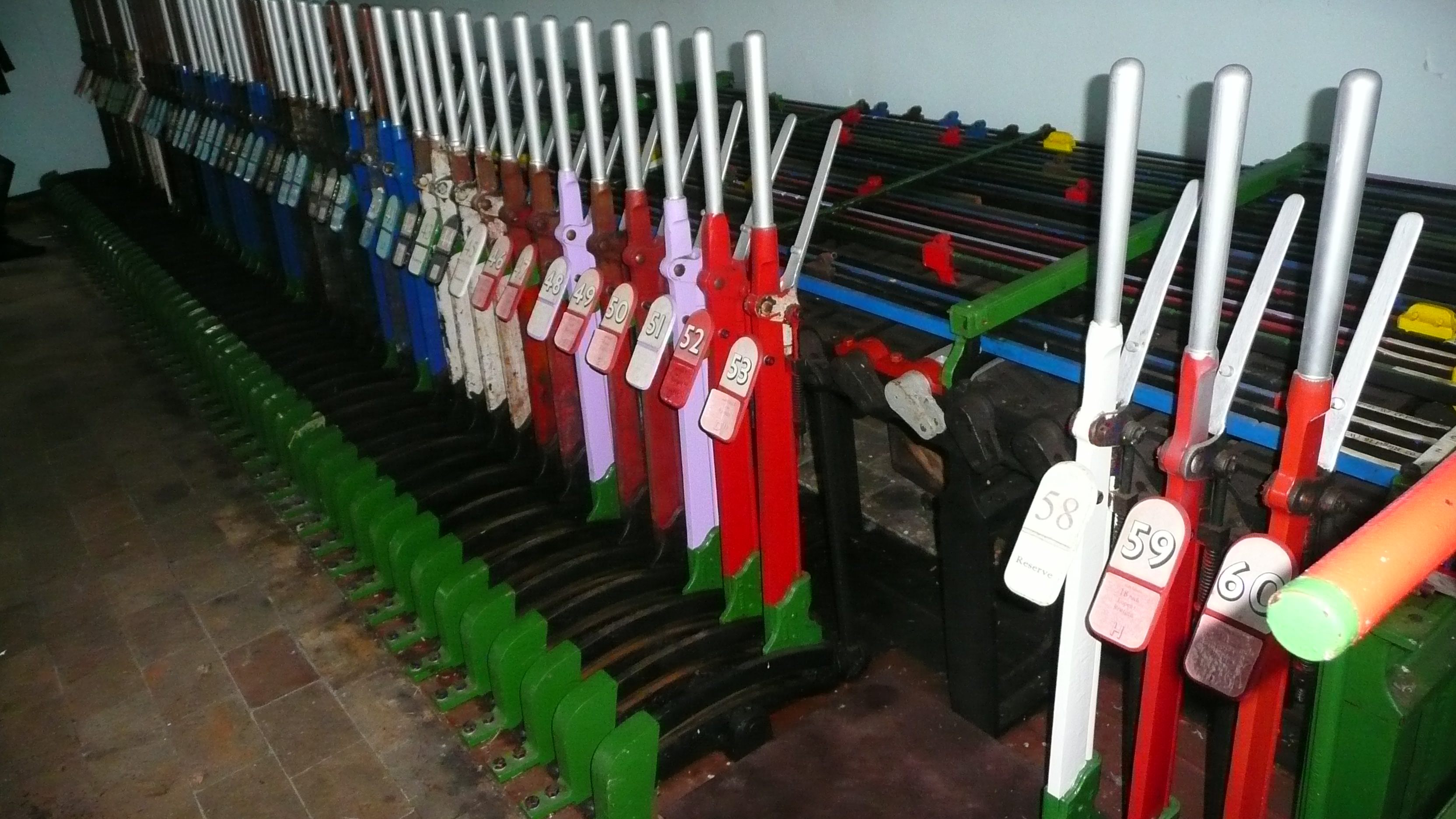 Saxby signalbox in Raeren